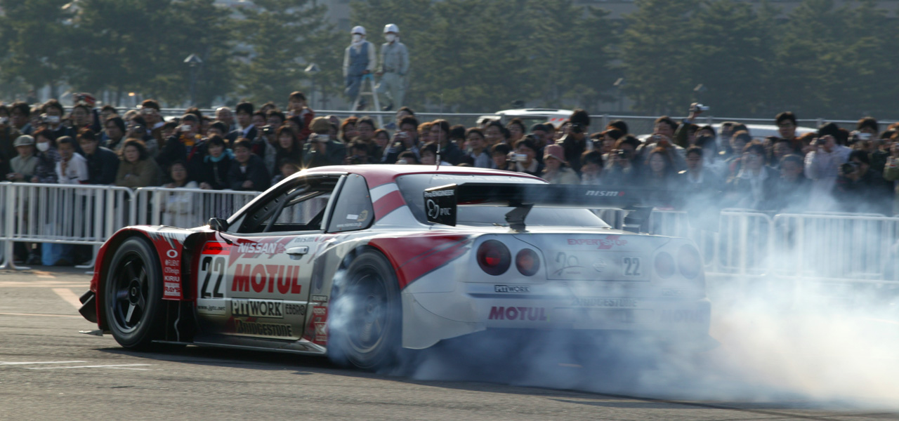 R34 Skyline 2003 MOTUL PITWORK GT-R in exhibition